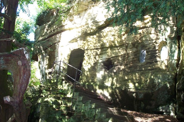 Warkworth Hermitage is carved from the rock. Inside there is a vaulted ceiling and altar, along with a nativity scene by the window. Warkworth, Northumberland